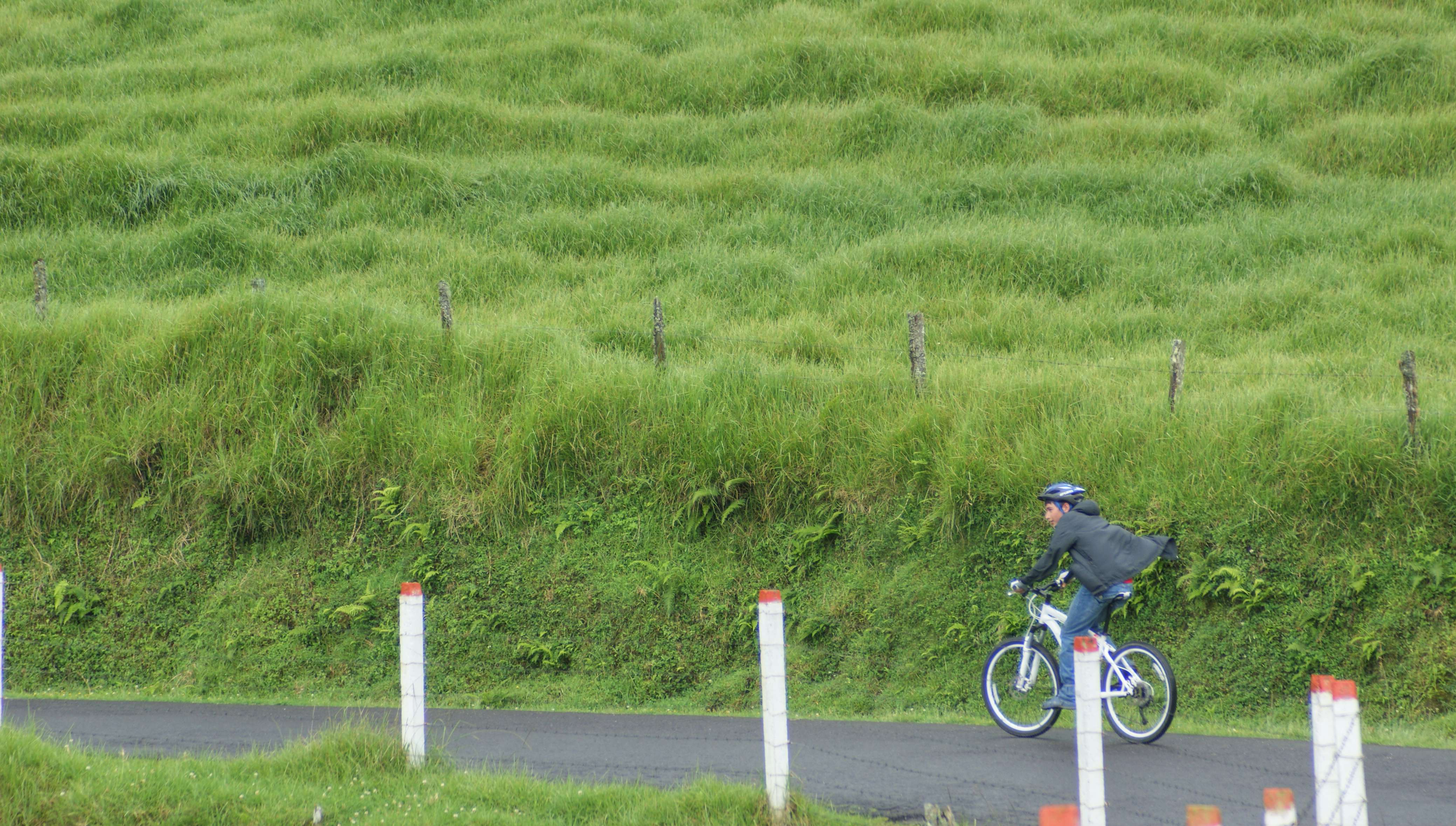 Coronado landscape